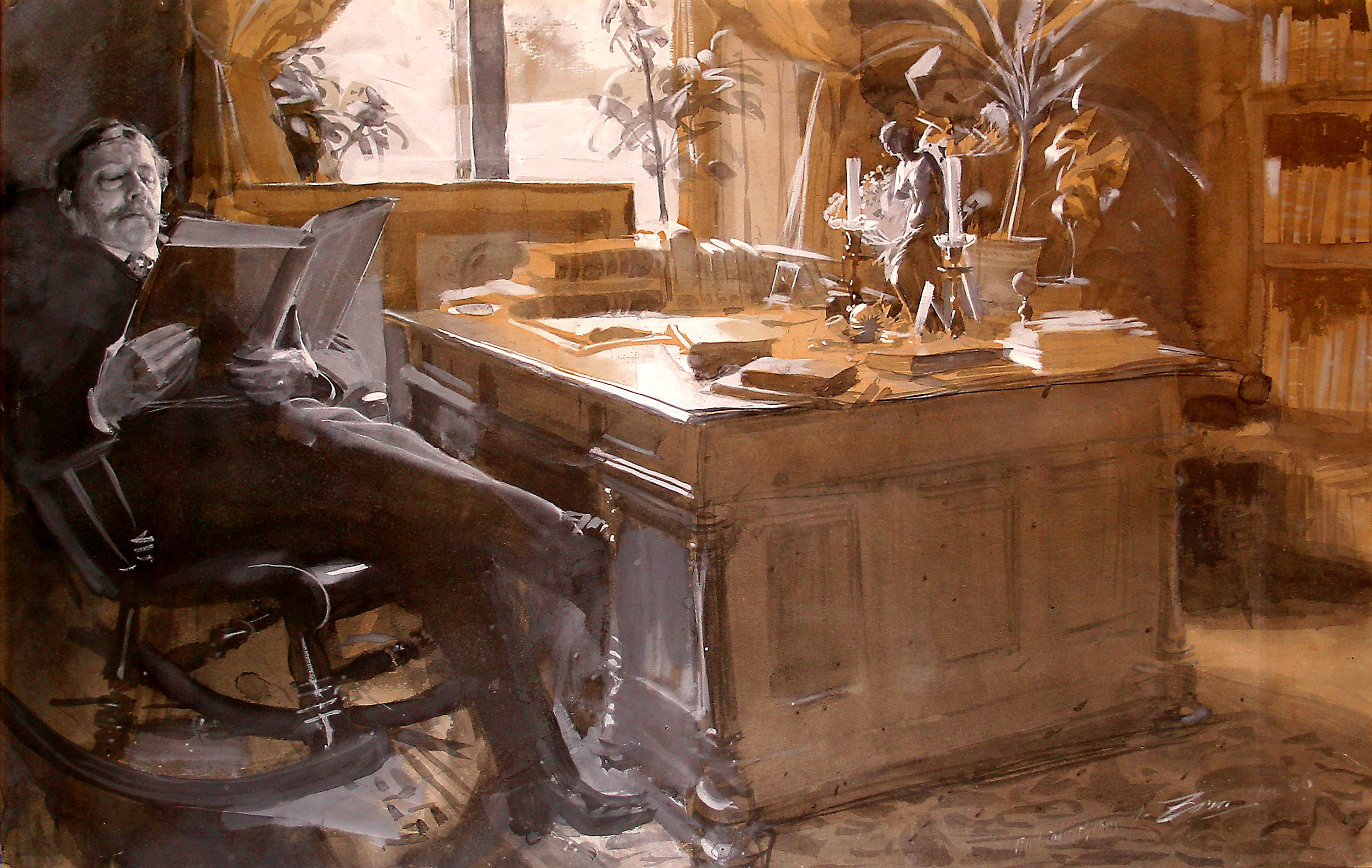 Swedish author Viktor Rydberg reading a book in his rocking-chair.